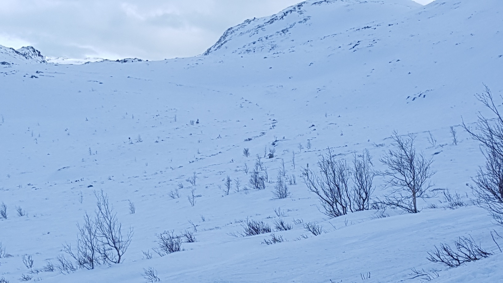 The route 651 Rjukan-Tuddal seen from Gaustabanen, during winter closure